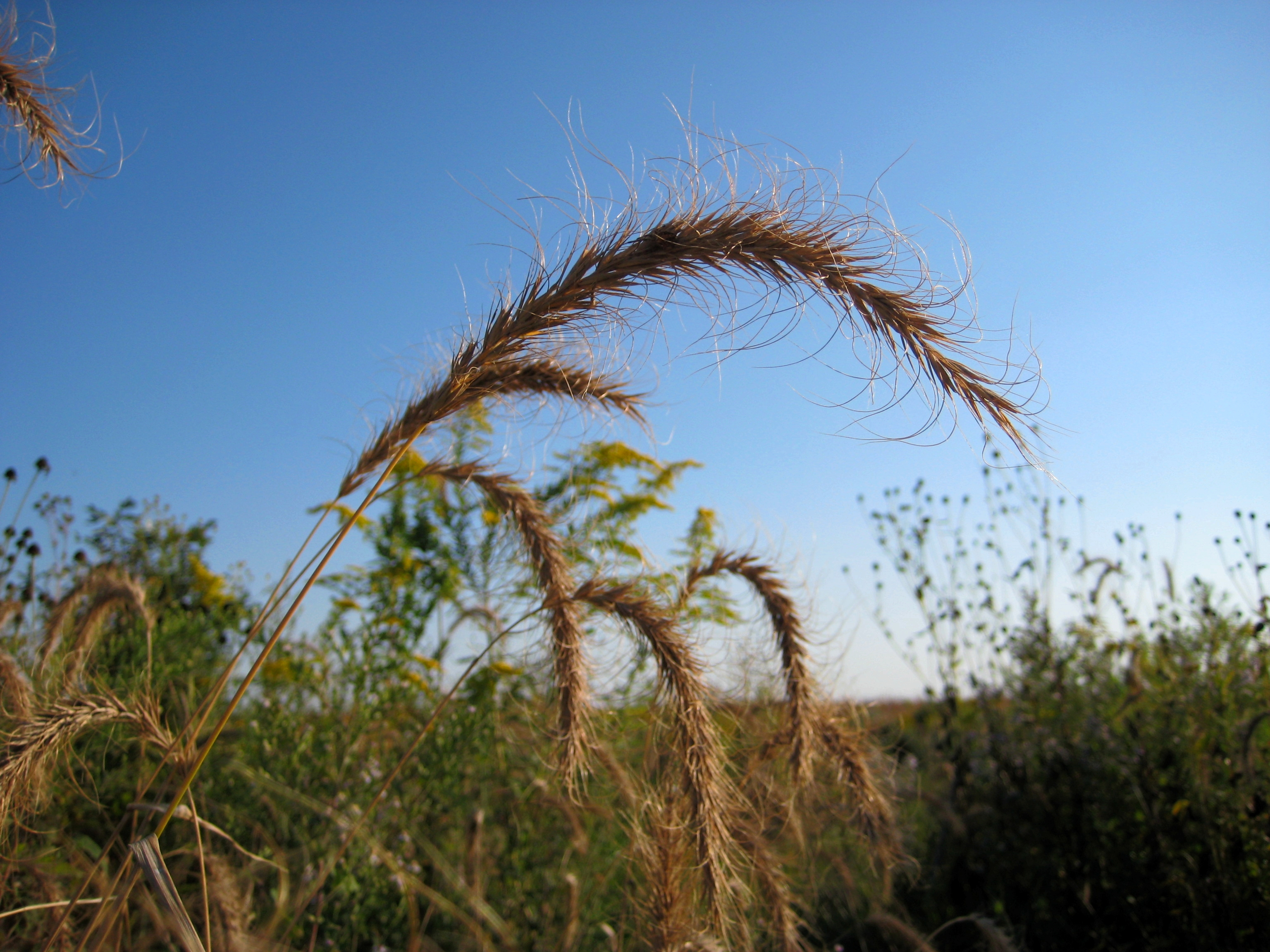 Elymus Canadensis, Pizzo seed production beds, Leland IL.